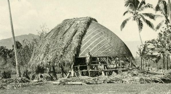 Samoan fale construction 1902